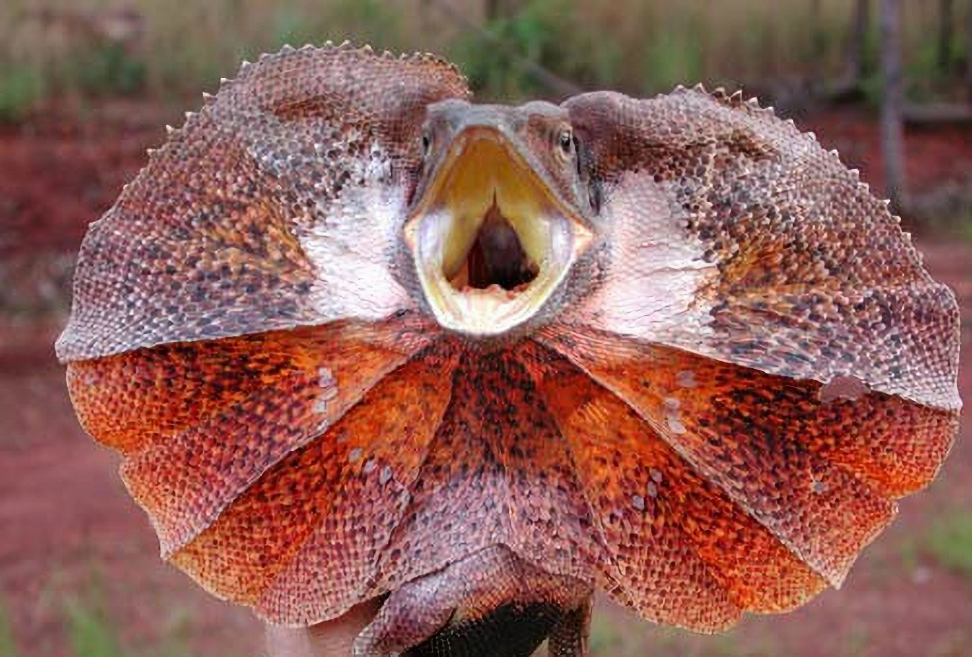 photo